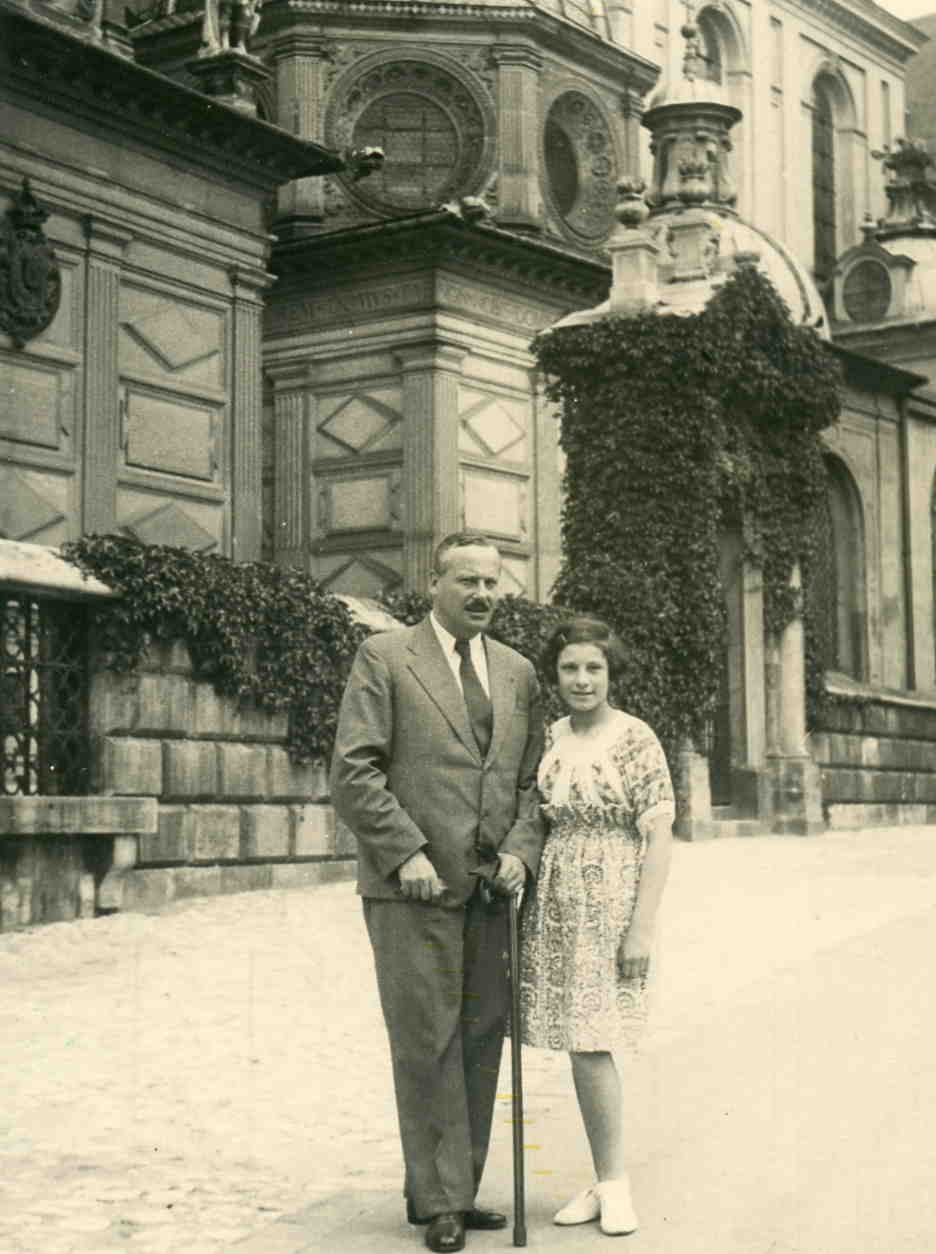 Count Alfred Poniński (ambassador of Poland in Paris) with his daughter Ewa in Cracow, June 2nd, 1939